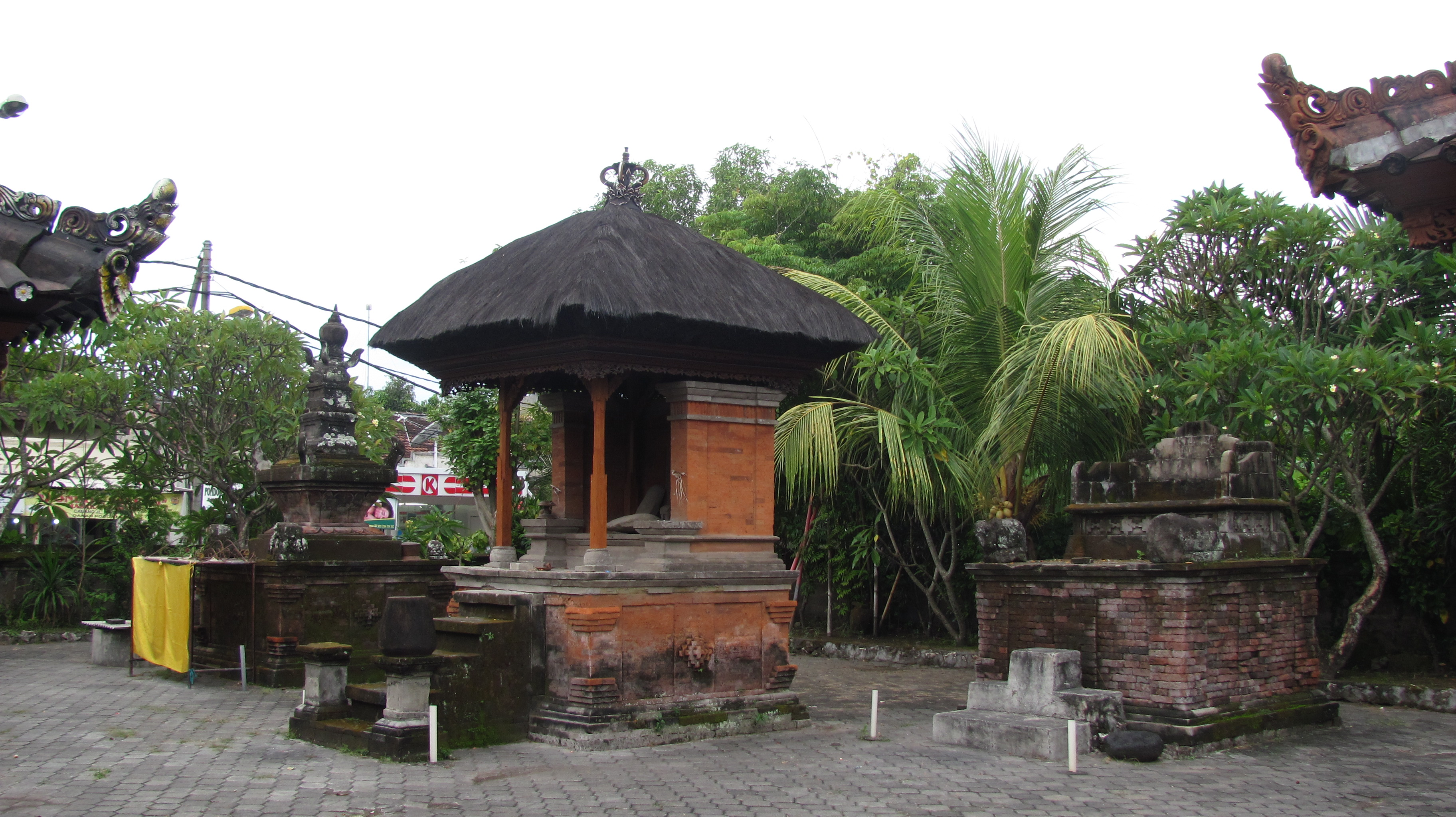 Hindu temple "Pura Belangjong", Sanur, Bali, Indonesia